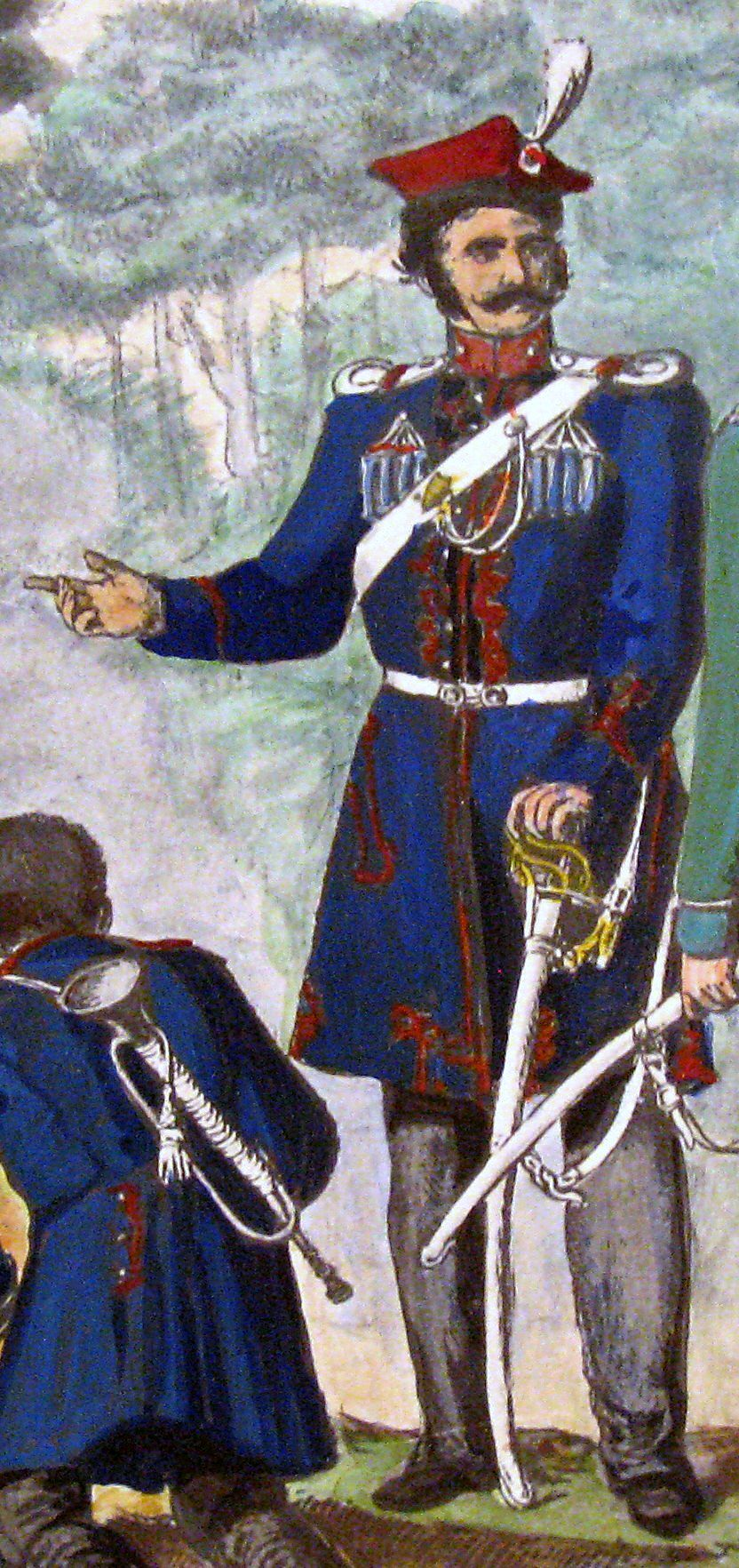 Cavalry of Podlasie of Polish Army of November Uprising